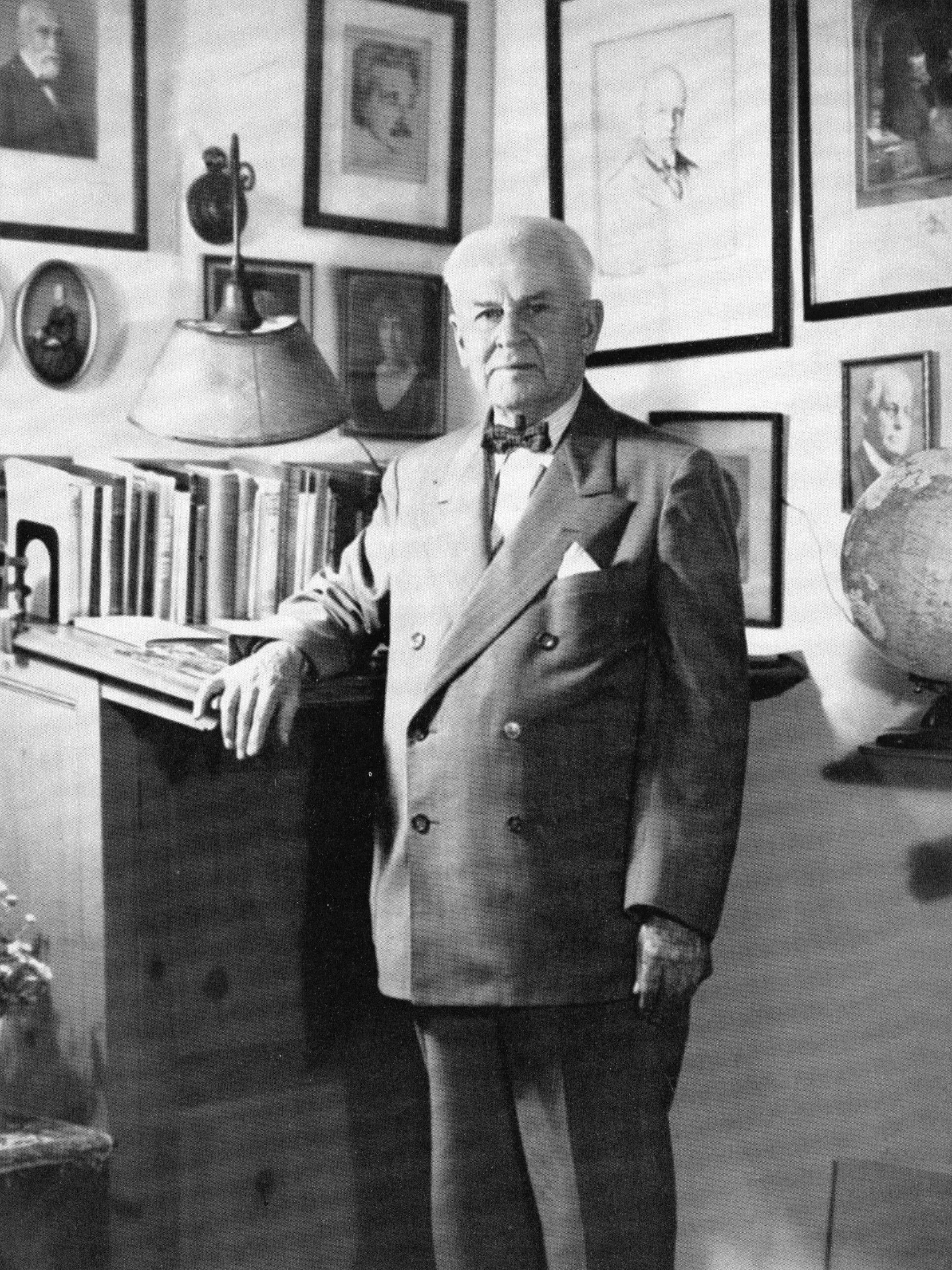 Robert A. Millikan in 1954